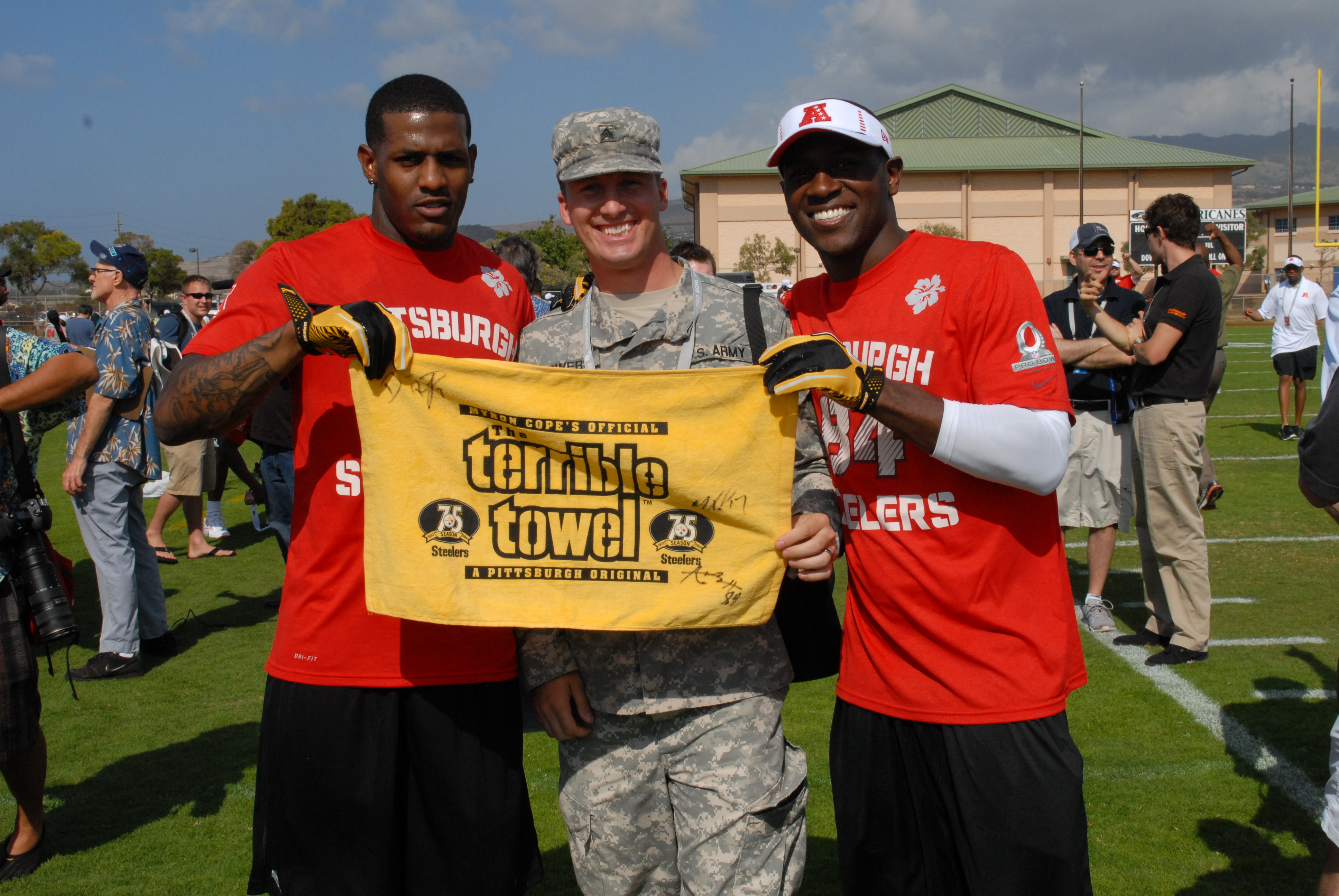 Mike Wallace (left) and Antonio Brown pose with a United States Army soldier during a 2013 Pro Bowl practice